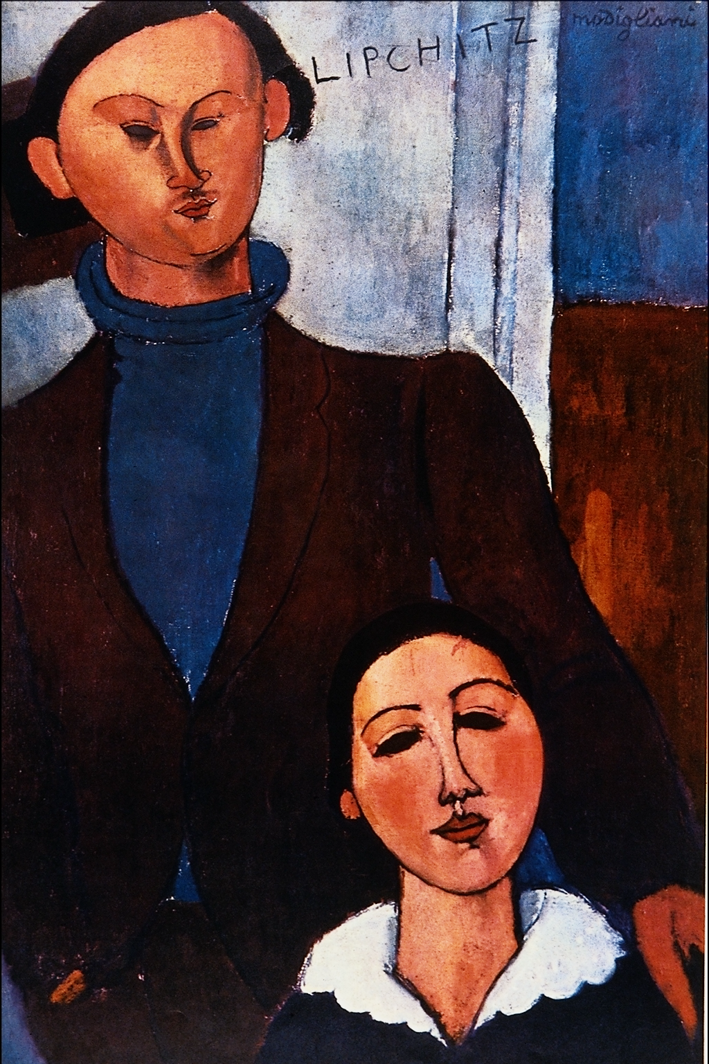 Jacques Lipchitz and his Wife